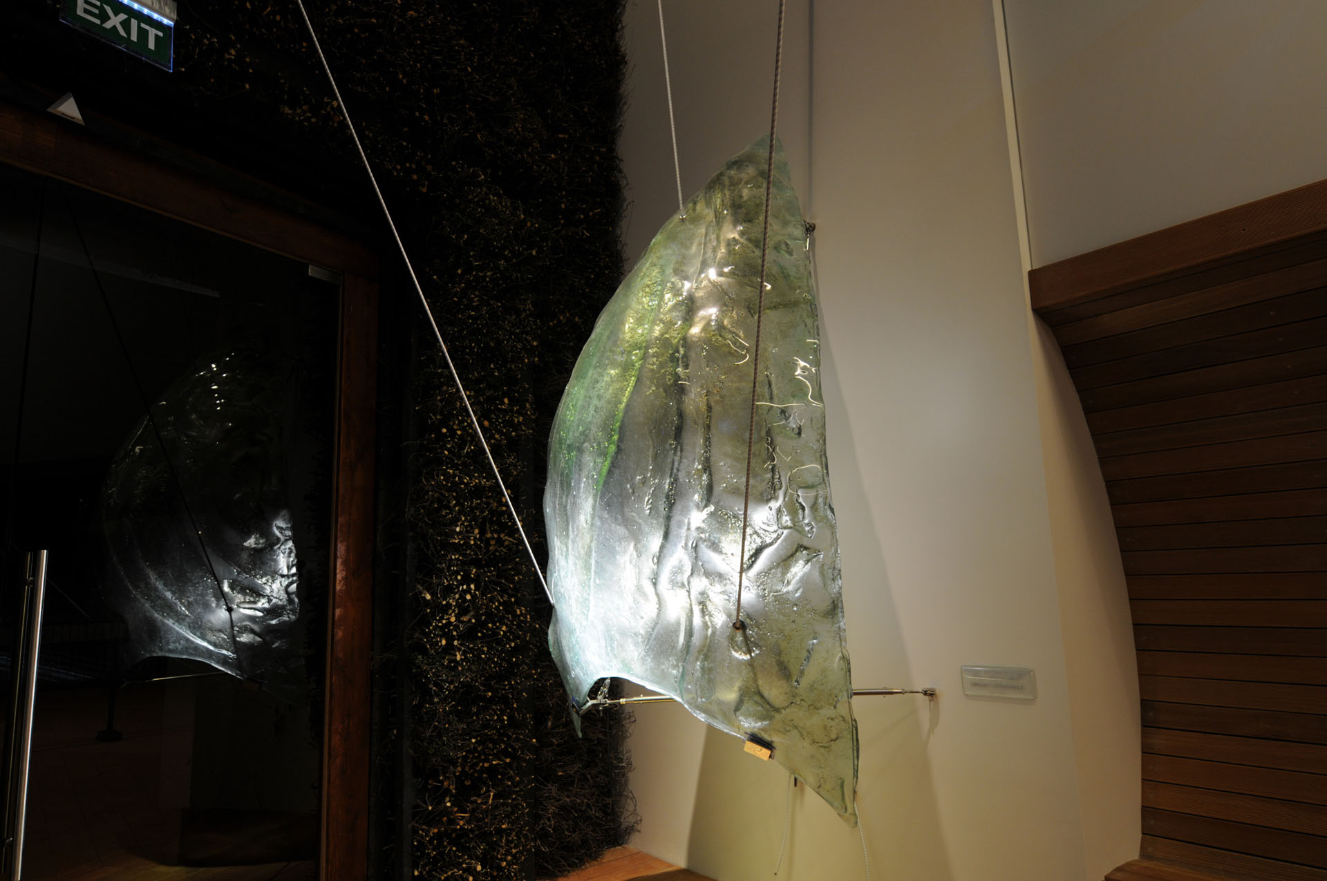 "Poland - Wind in the Sails" glass sculpture at the Polish Pavilion of the EXPO 2008 in Zaragoza, Spain, was designed and created by Tomasz Urbanowicz (ARCHIGLASS) after winning the competition organized by the Polish Agency for Enterprise Development.